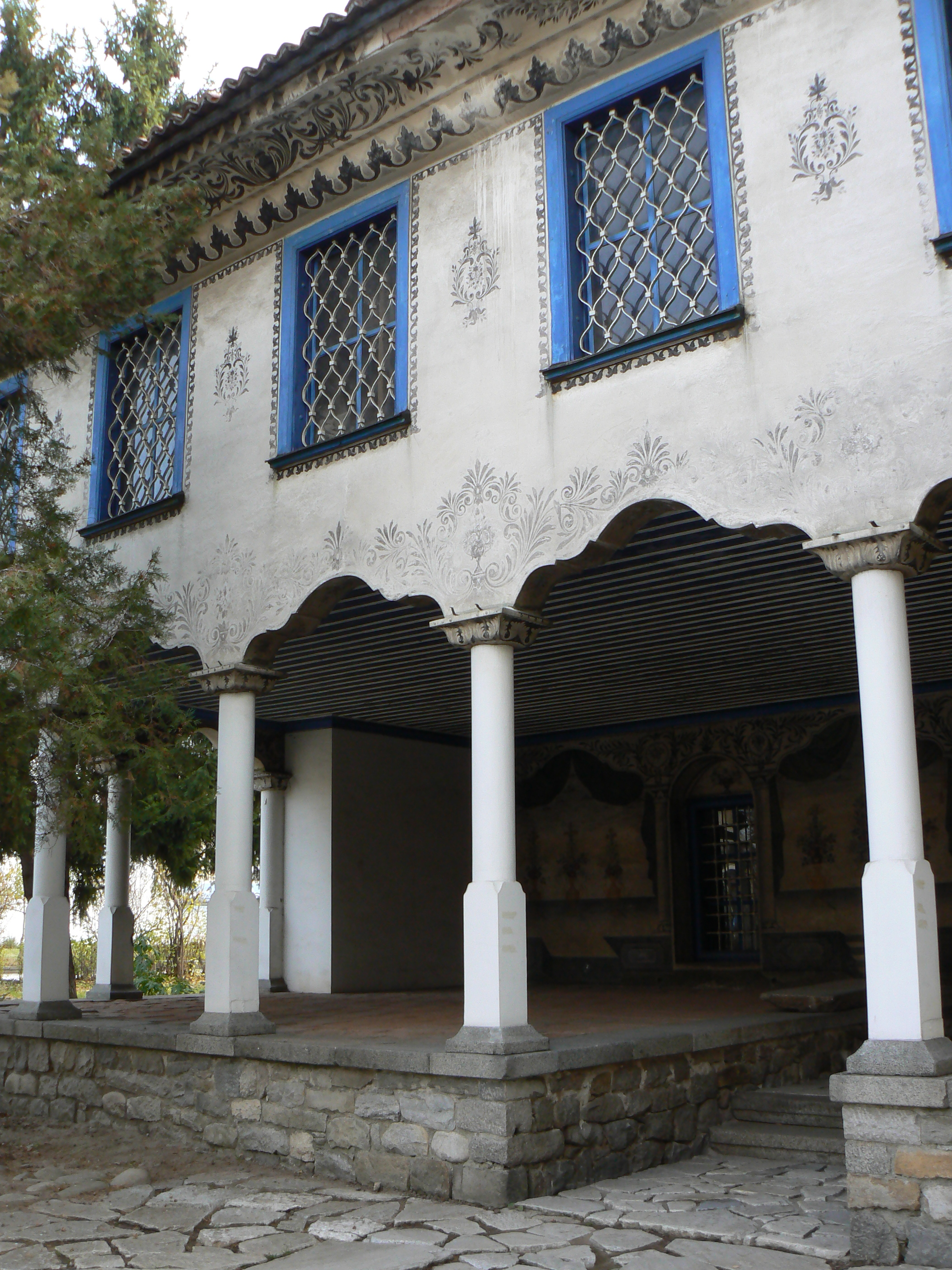 Bayrakli Mosque, Samokov, Bulgaria